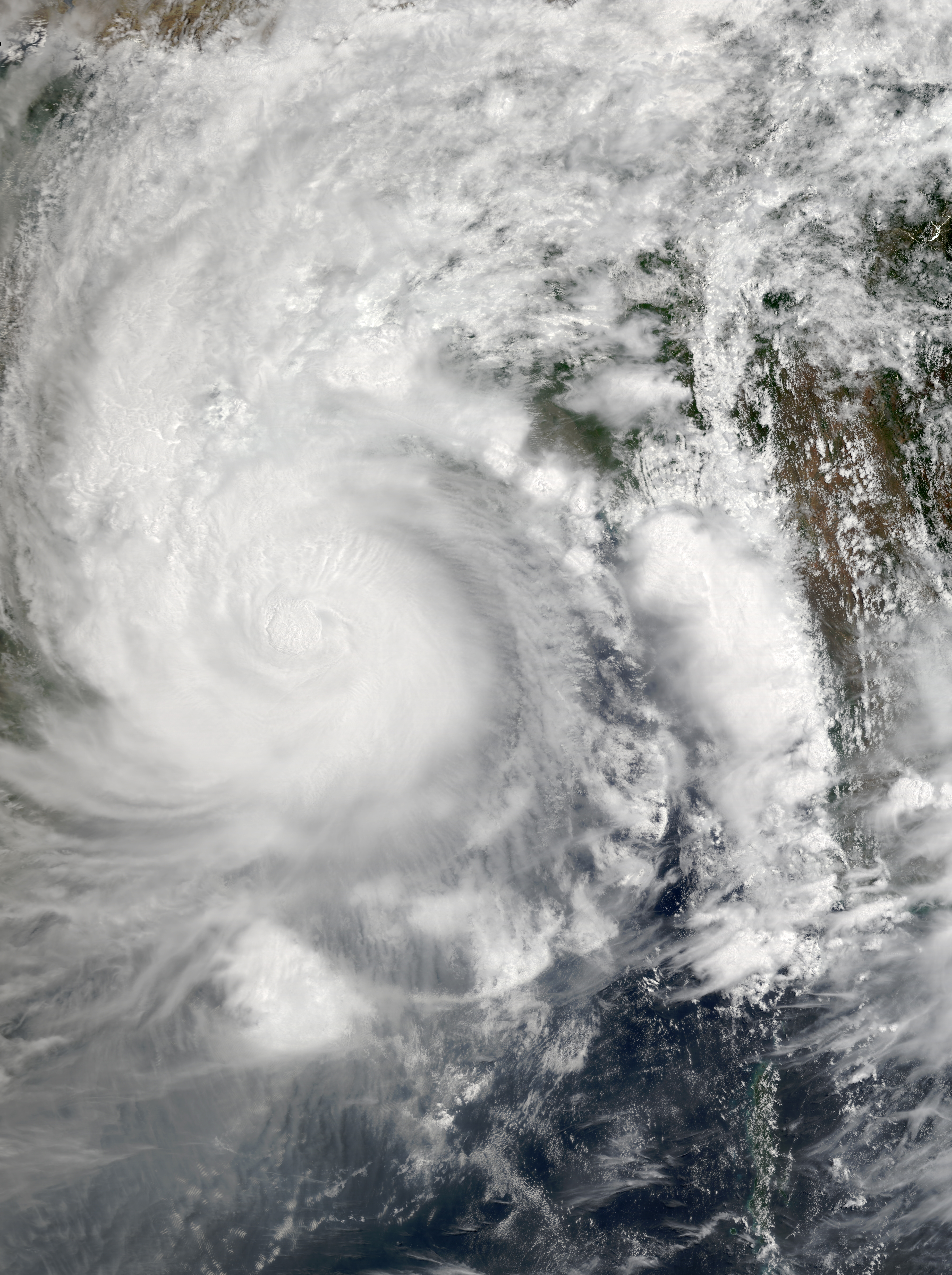 Cyclonic Storm Amphan on May 20, 2020